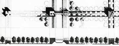 concours equipements sportifs